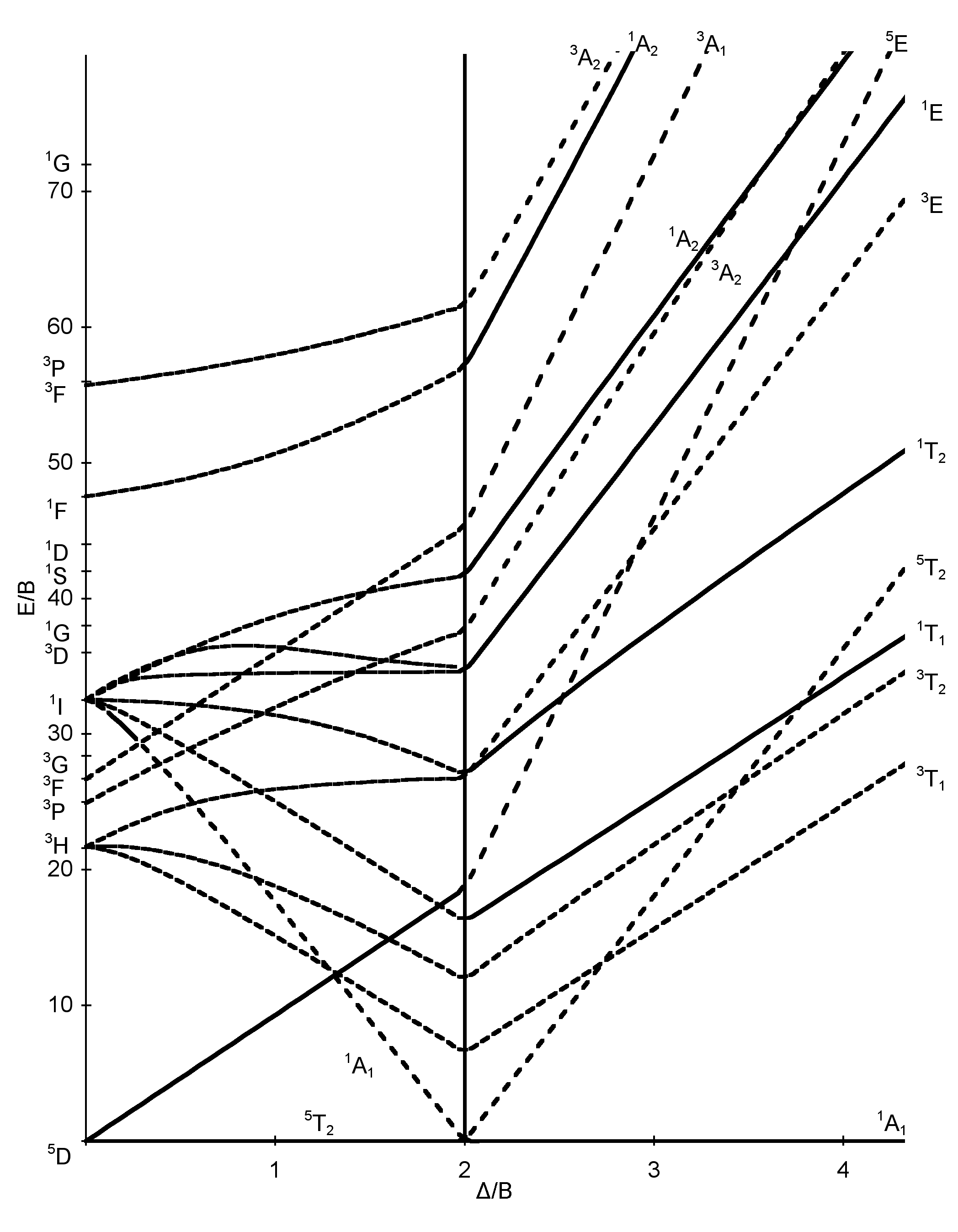 A Tanabe-Sugano diagram for the octahedral d6 electron configuration.